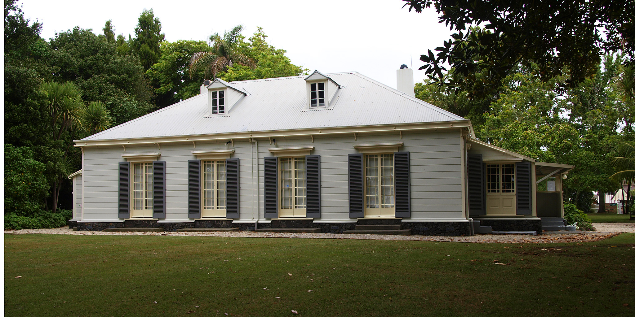 Elms Mission Station (1838), Tauranga, New Zealand